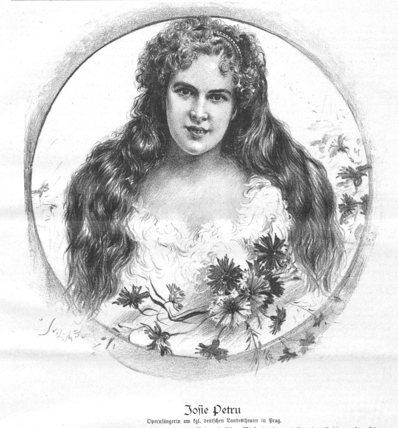 Portrait of Josie Petru (1876-1907), Austrian opera singer of Slavonian origin.